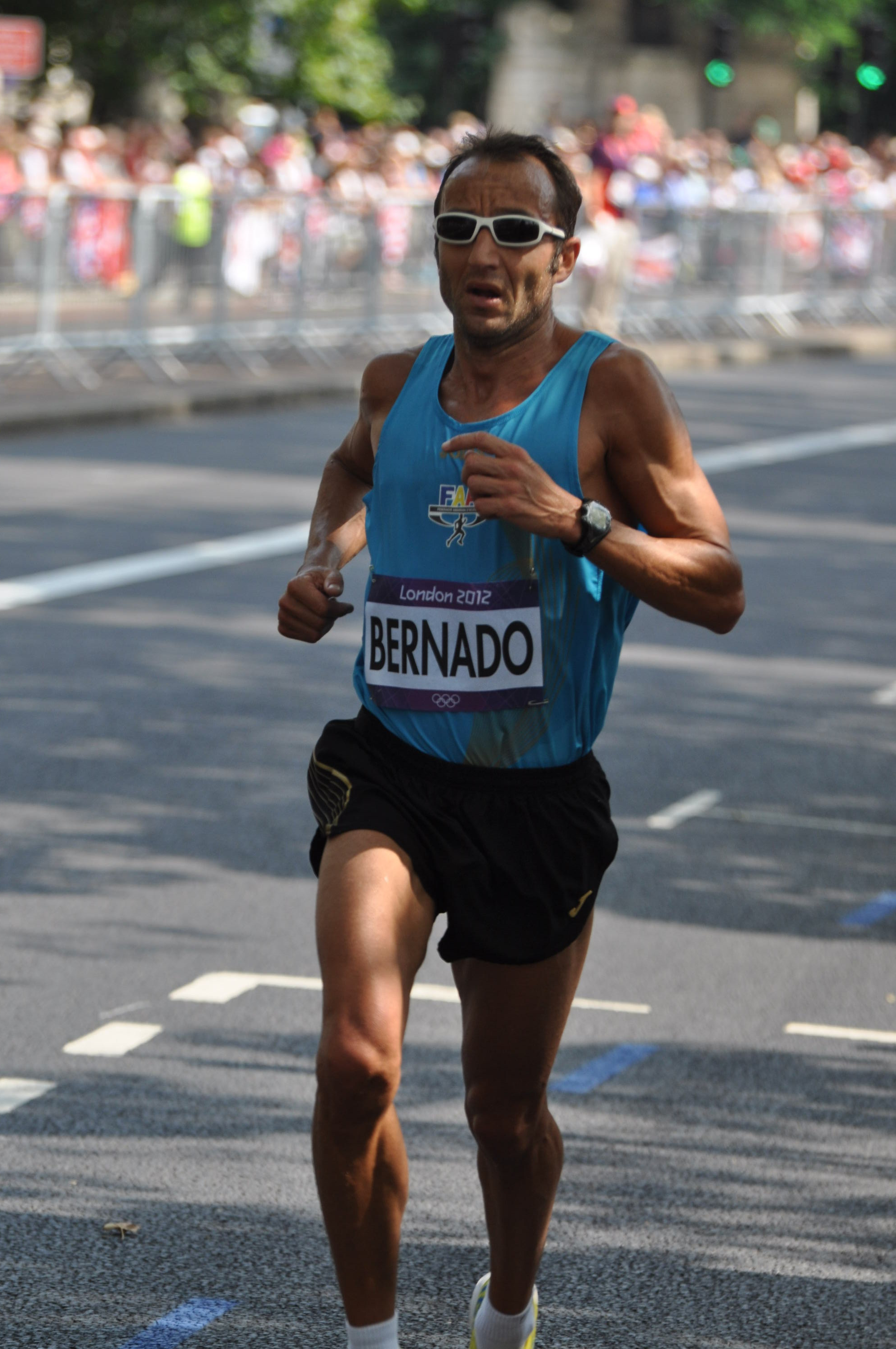 The men's marathon of the 2012 Summer Olympics in London, UK took place on an Olympic marathon street course on Sunday 12th August 2012 at 11:00. This was the final day of the 30th Olympic Games. The London 2012 marathon course is the standard Olympic distance of 26 miles 385 yards and consists of one short lap of approx 2.2 miles followed by three longer laps of 8 miles. The course began on The Mall and travelled past several of the most famous London landmarks. The start/finish line was near the Victoria Memorial. These photographs were taken at the Victoria Embankment. This featured several times on the looped course. The approximate location from the photographs is shown in the Google StreetView Link below. Stephen Kiprotich won in 2 hours, 8 minutes, 1 second as he pulled away from the Kenyan duo of Abel Kirui and Wilson Kiprotich Kipsang. These photographs are unofficial photographs. They are not endorsed by London 2012. There are not commercially available. They are available for use under a Creative Commons License. Please link back to the photograph on my Flickr account if you use the image.